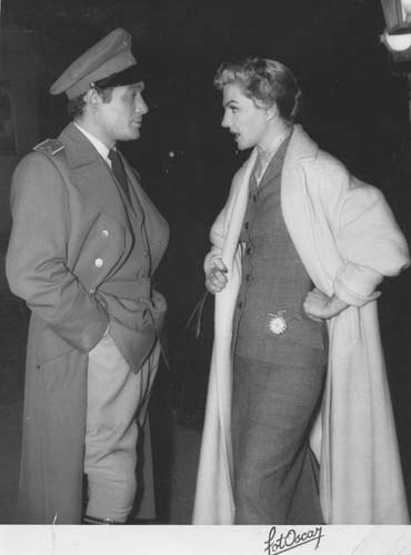 Jorge Mistral con uniforme militar y Zully Moreno. Film still / Promo pic from Amor prohibido (film), 1958